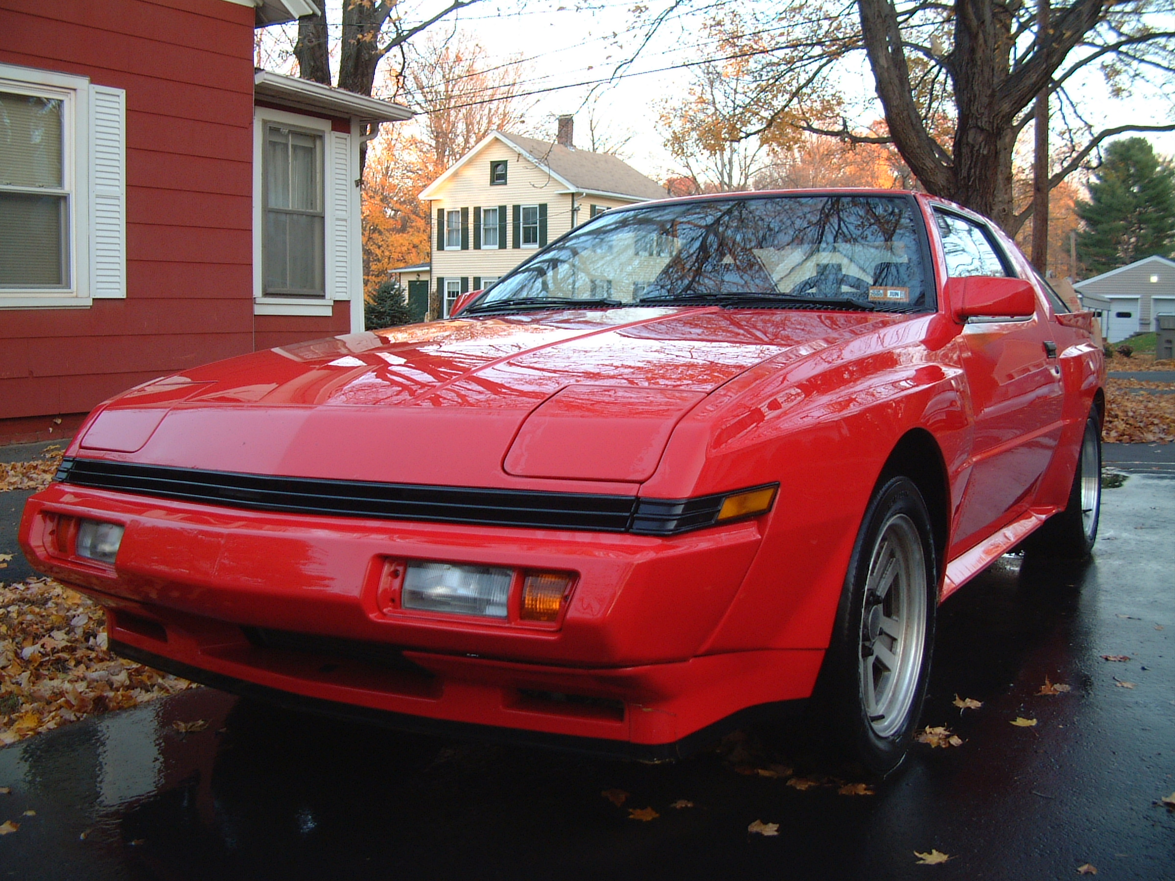 Description: Front left view of 1987 Mitsubishi Starion automobile. Front suspension rides about 2 inches higher due to removal of engine. Source: Self-taken digital photograph Date: 08 Nov 2005 Photographer: Peter A Bergeron